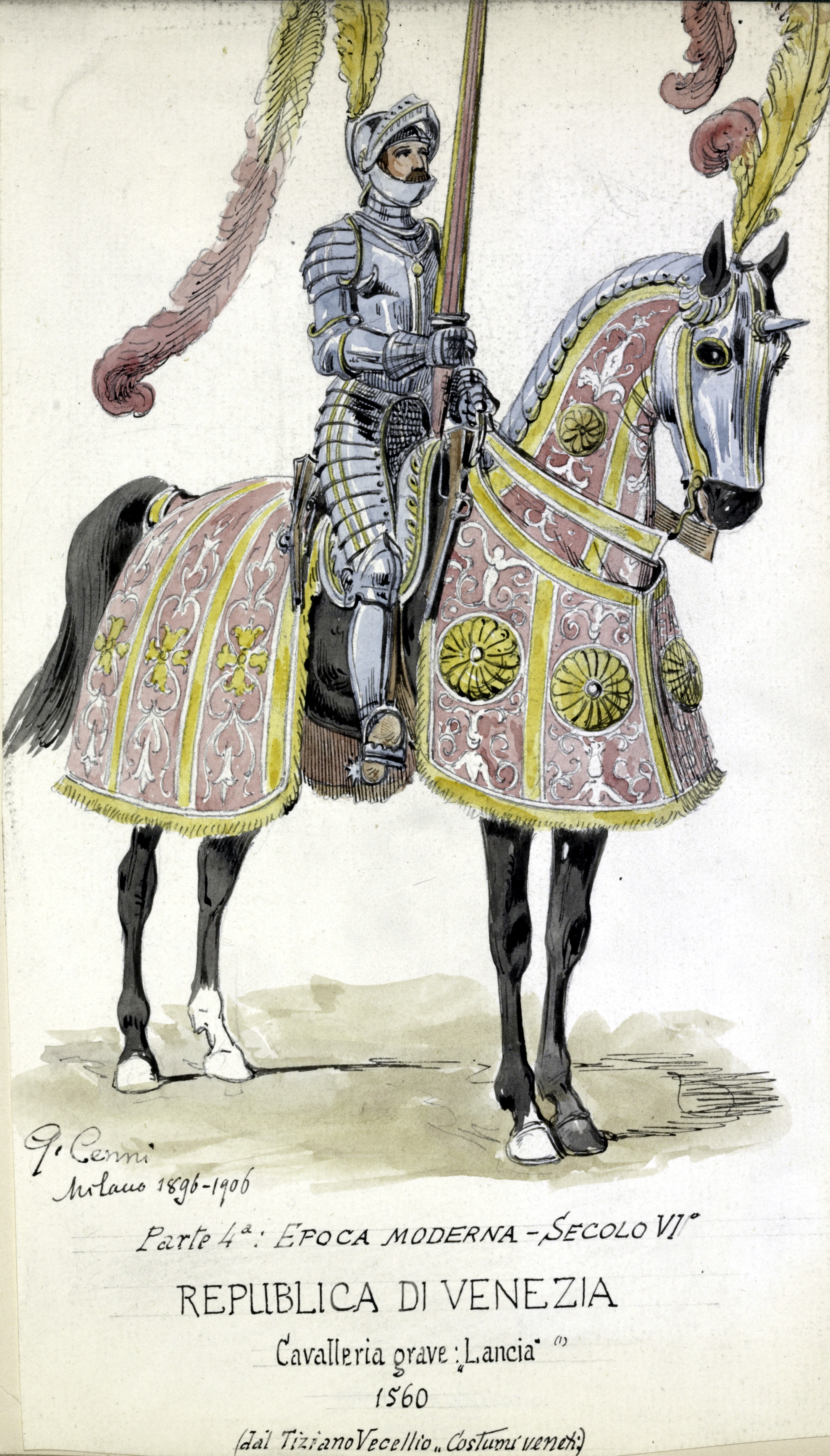 Heavy cavalryman of the Venetian Republic, 1560